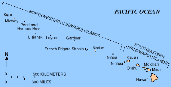 Map of the Hawaiian Islands — a chain of volcanoes that stretches about 2,700 kilometres (1,700 mi) in a northwest direction, from the Island of Hawai'i and other Windward/Southeastern Main Hawaiian Islands, to the Leeward Northwestern Hawaiian Islands (Honolulu County).